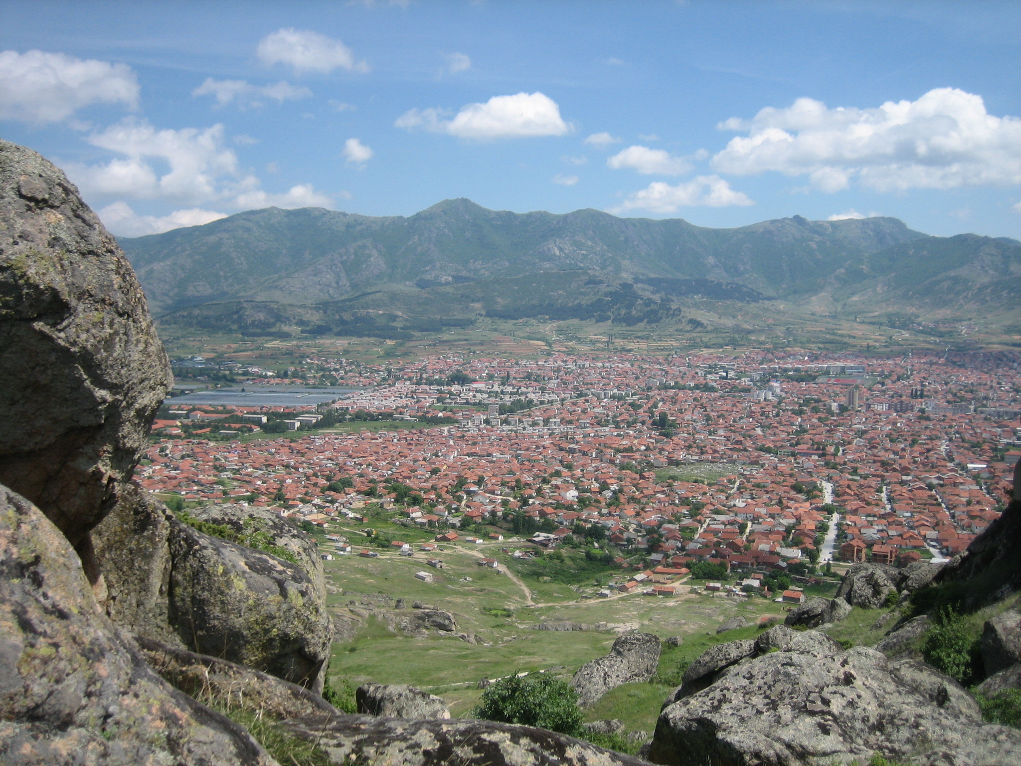 Prilep from Towers of Marko